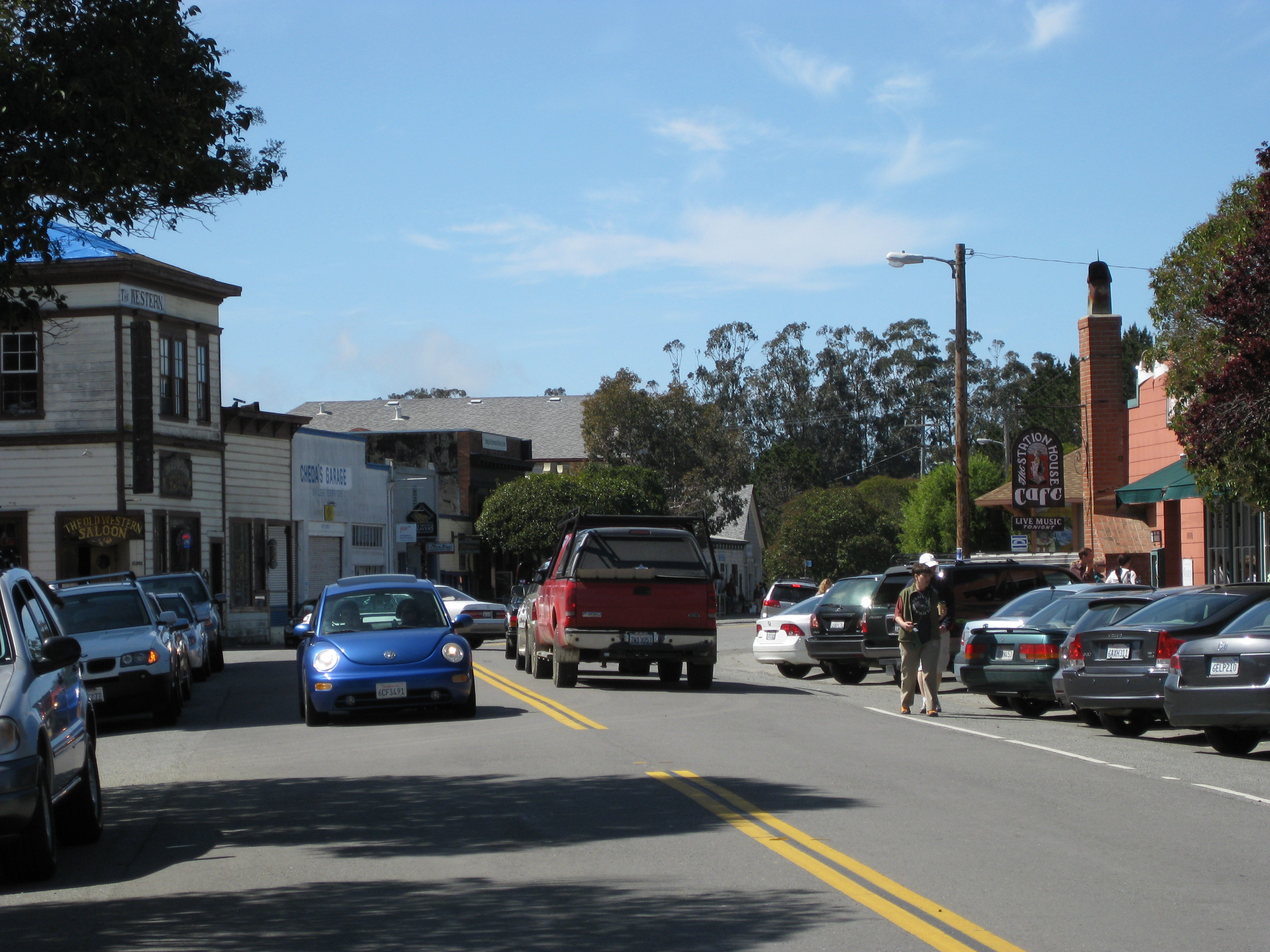 Point Reyes Station, CA